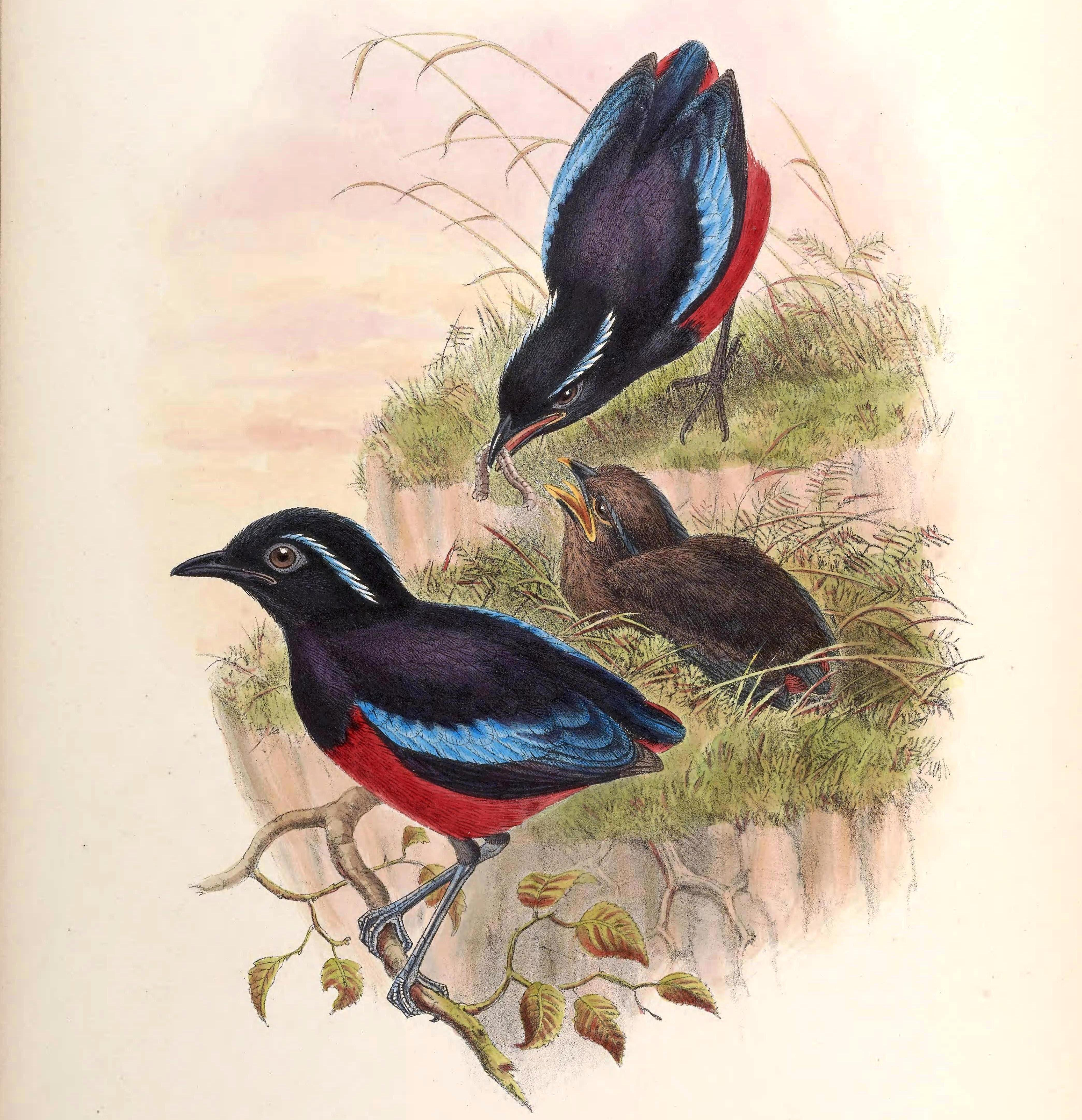 Pitta ussheri = Erythropitta ussheri[1]